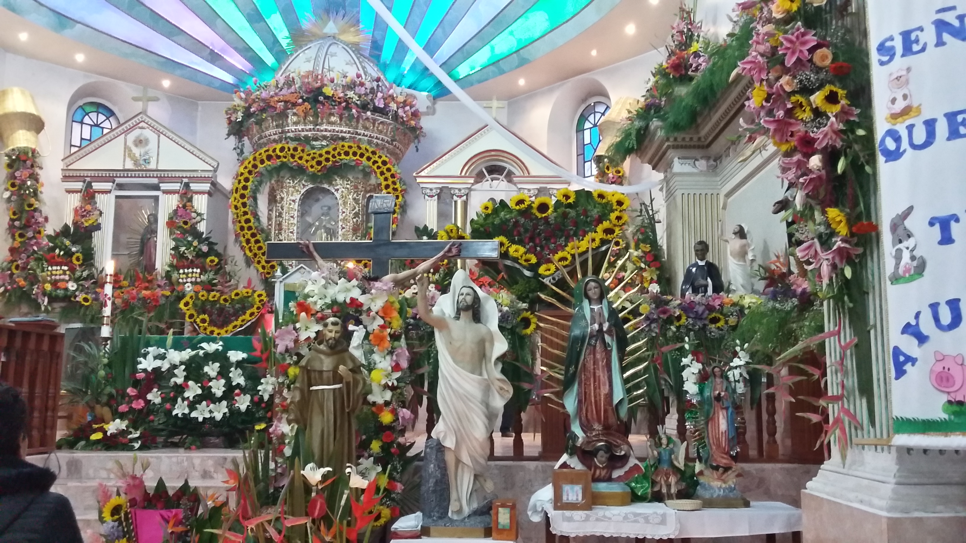 Iglesia de san francisco xochicuautla feria anual octubre 2019